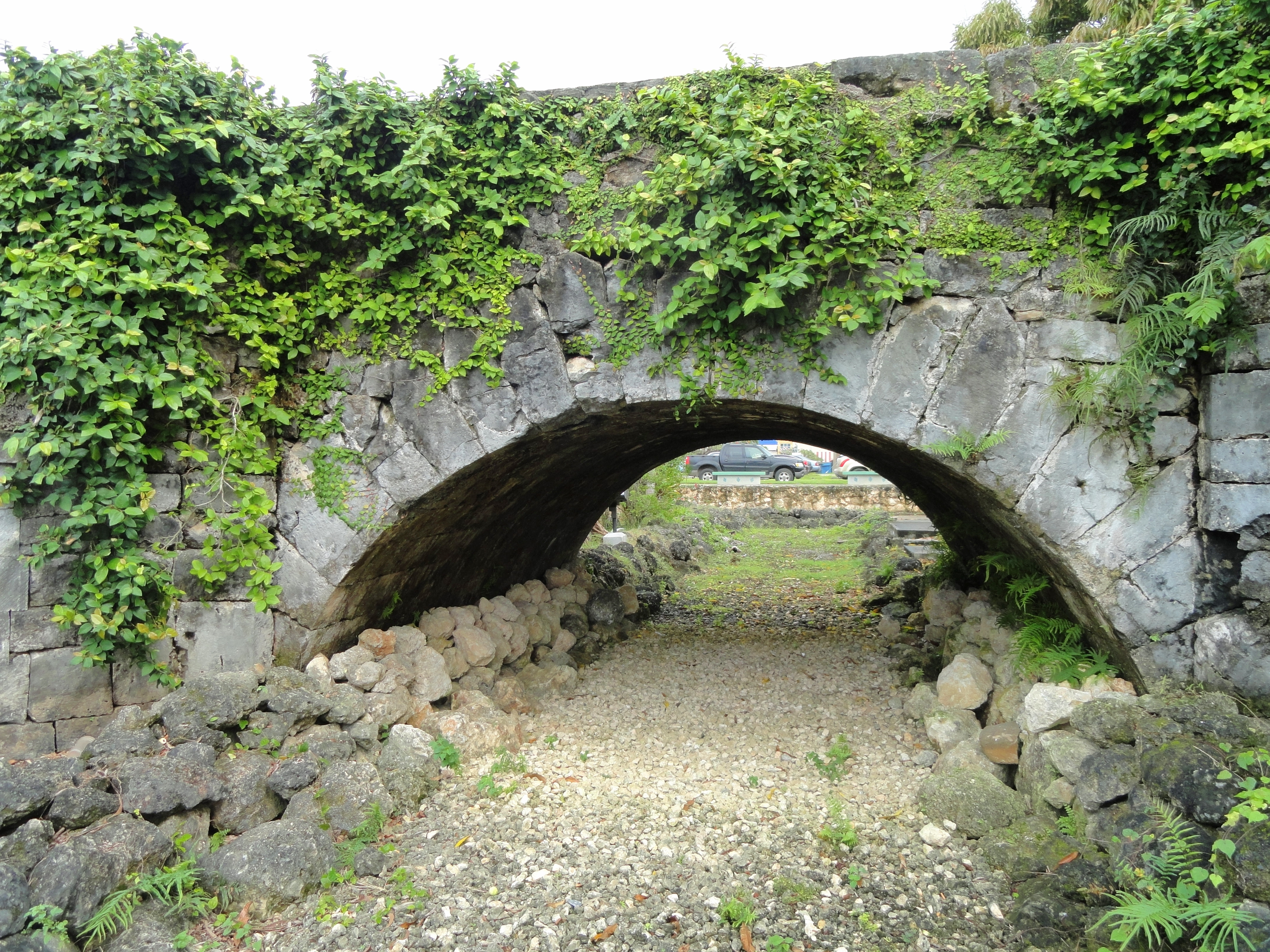 San Antonio Bridge (Old Spanish Bridge, To'lai Acho) in Hagåtña, Guam, USA. This bridge was built in 1800 and now on the National Register of Historic Places.